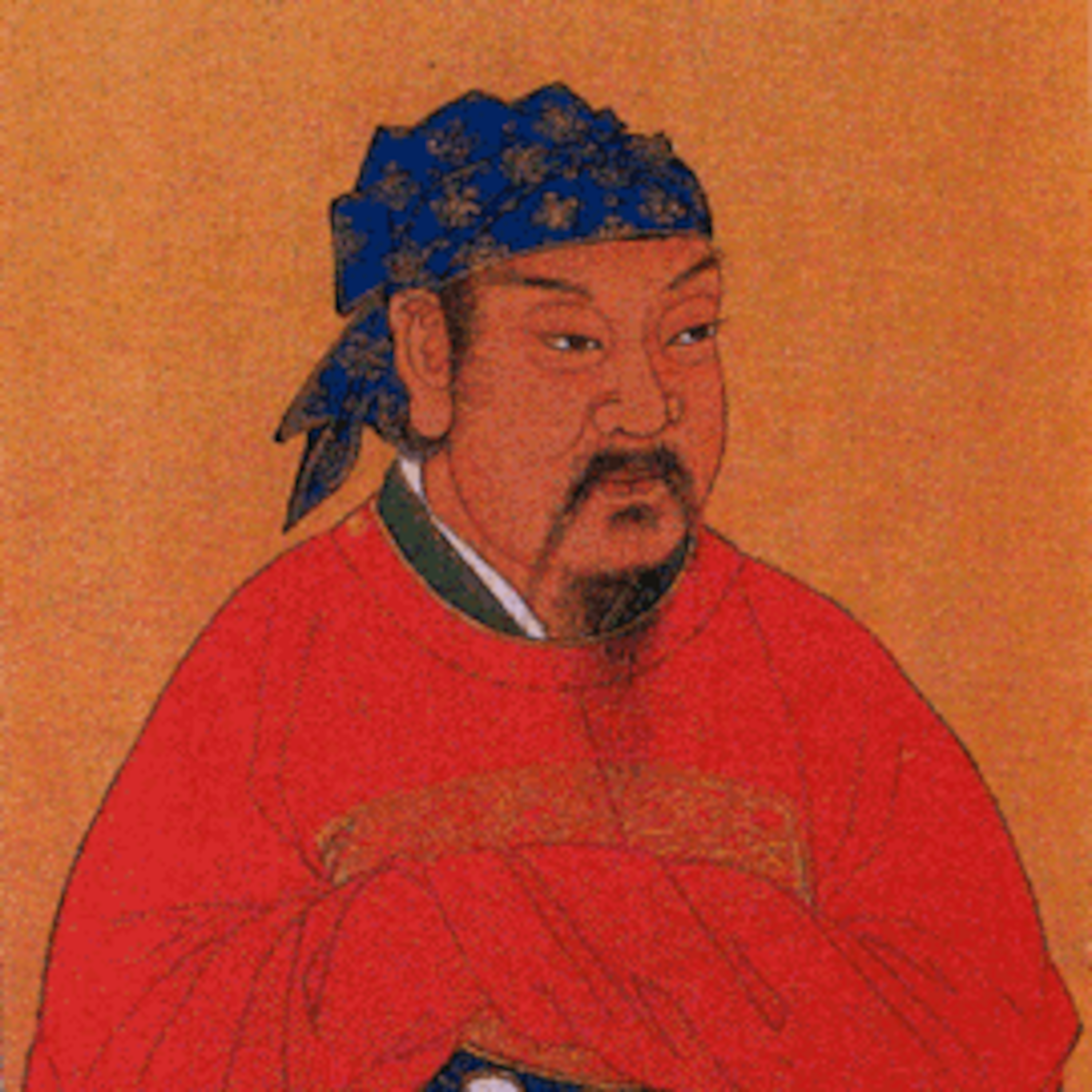 Liu Yuxiang